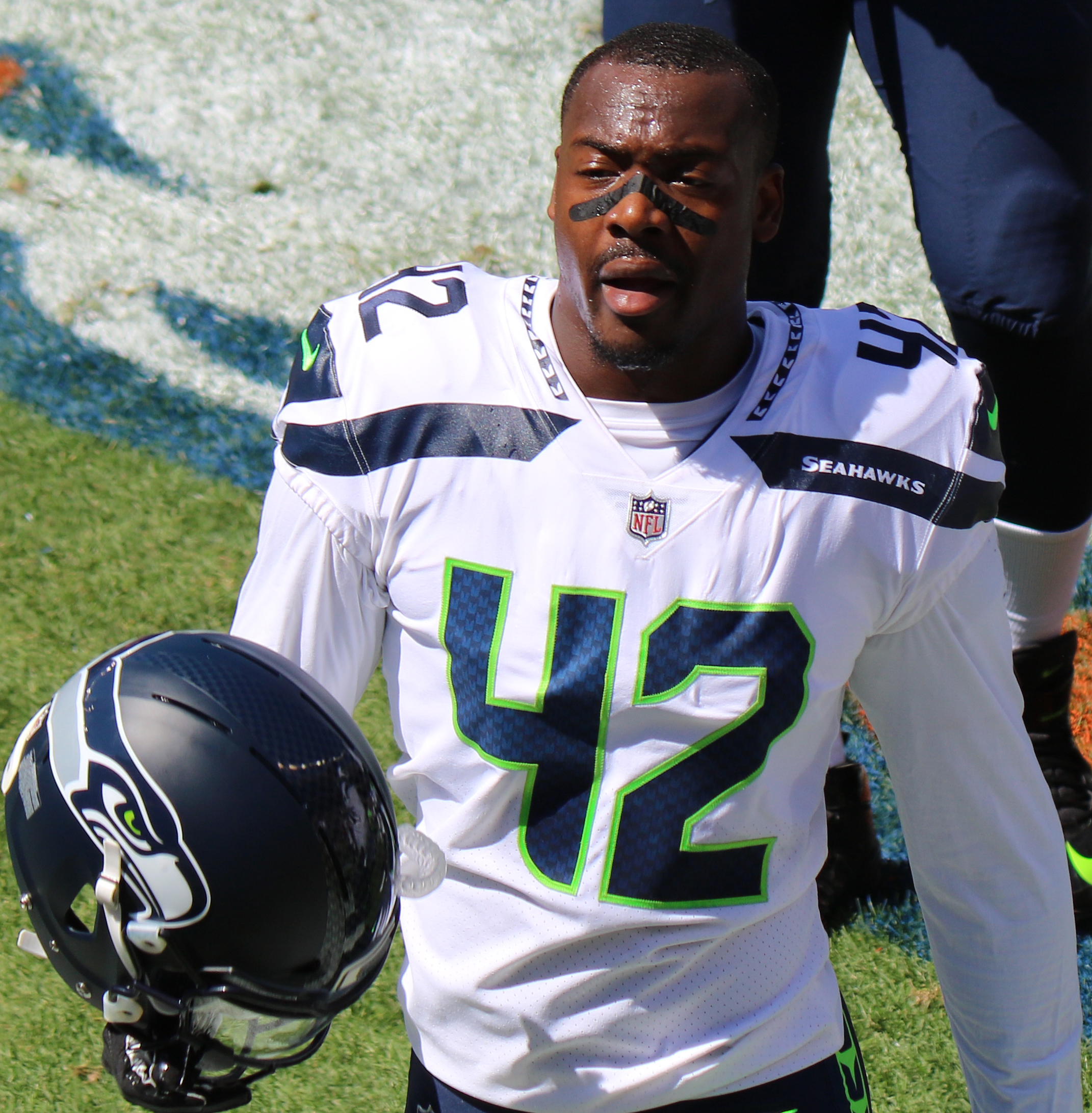 Delano Hill, a National Football League player.